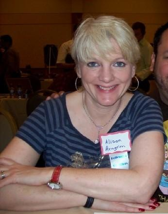 Actress Alison Arngrim taken at a celebrity autograph show in Burbank, California.